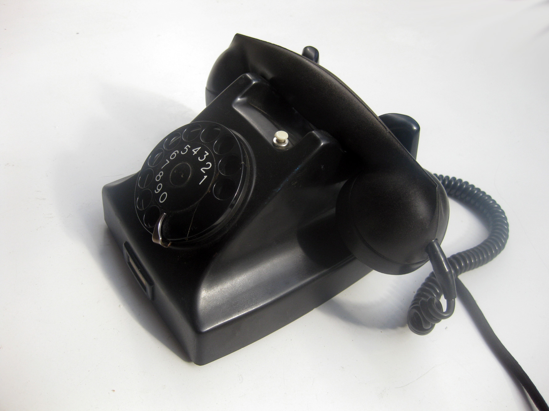 1950ies Ericsson bakelite telephone. Redesign of 1947 of the 1931 model, attributed to Gerard Kiljan